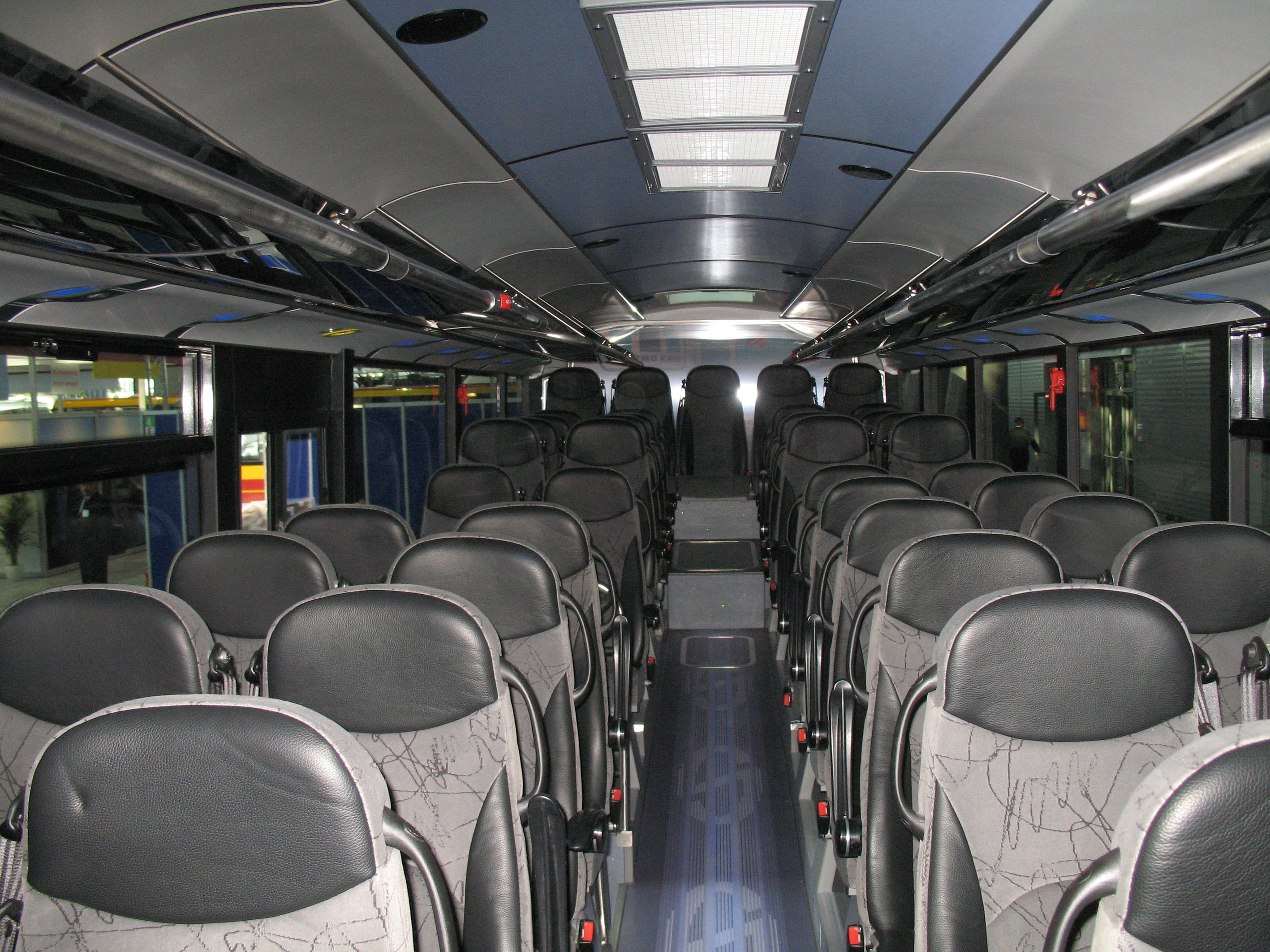 Solaris InterUrbino 12 bus interior in Kielce, Poland. Built 2010. Transexpo 2010.